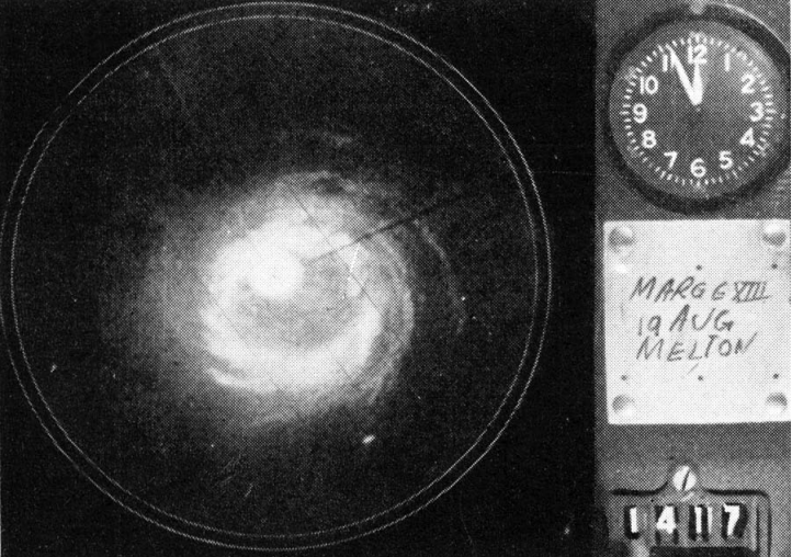 Radar view of the eye of typhoon "Marge." The bright lines are a reflection of radar waves upon rain droplets. The eye itself being relatively free of rain is identified by a minimum return of radar energy with the spiral bands of convective cloudiness winding about the eye like a spiral nebula.